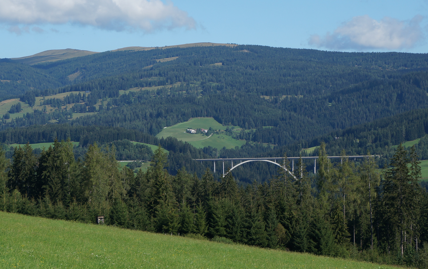 View to motorway bridge A2, section Pack, municipality Preitenegg, Carinthia, Austria, European Union